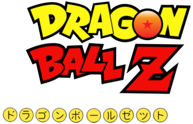 Logo of Dragon Ball Z anime